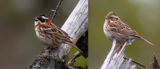 Rustic bunting (adult male and female)